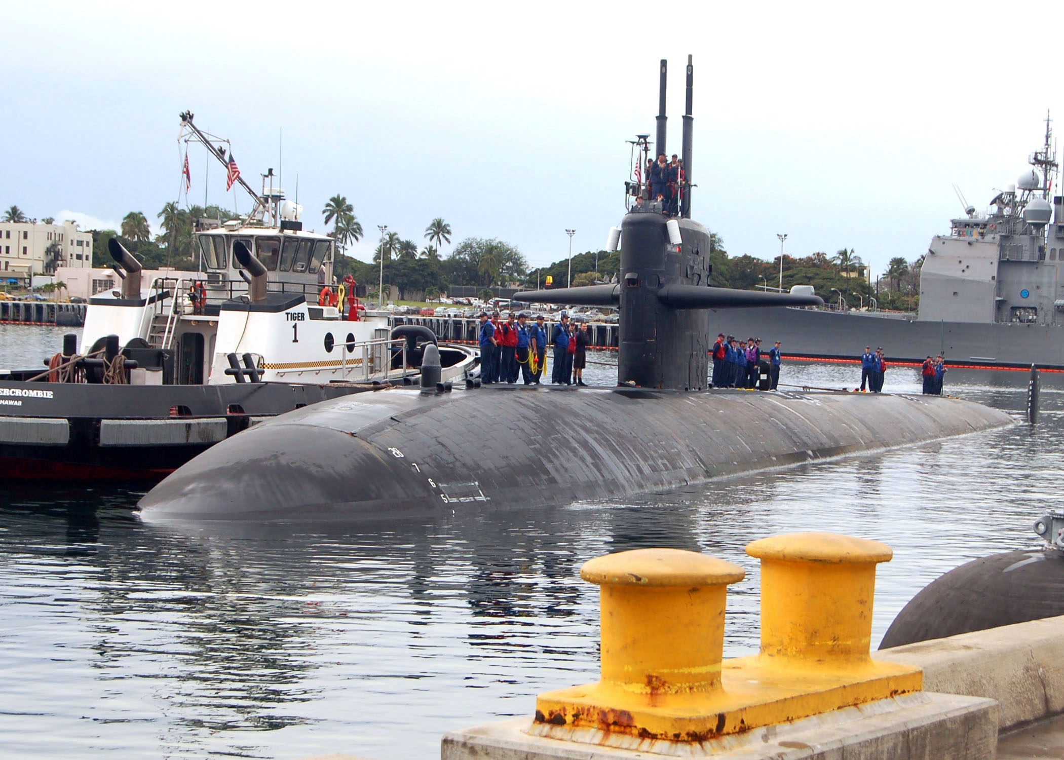 PEARL HARBOR, Hawaii (March 13, 2007) – Fast attack submarine USS Bremerton (SSN 698) returns to the operational side of the Pacific Submarine Force as she returns to Pearl Harbor Naval Station. Bremerton completed her first set of sea trials after concluding a three-year engineering refuel and overhaul. U.S. Navy photo by Mass Communication Specialist 1st Class Cynthia Clark (RELEASED)